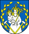 Coat of arms of Medzev, Slovakia